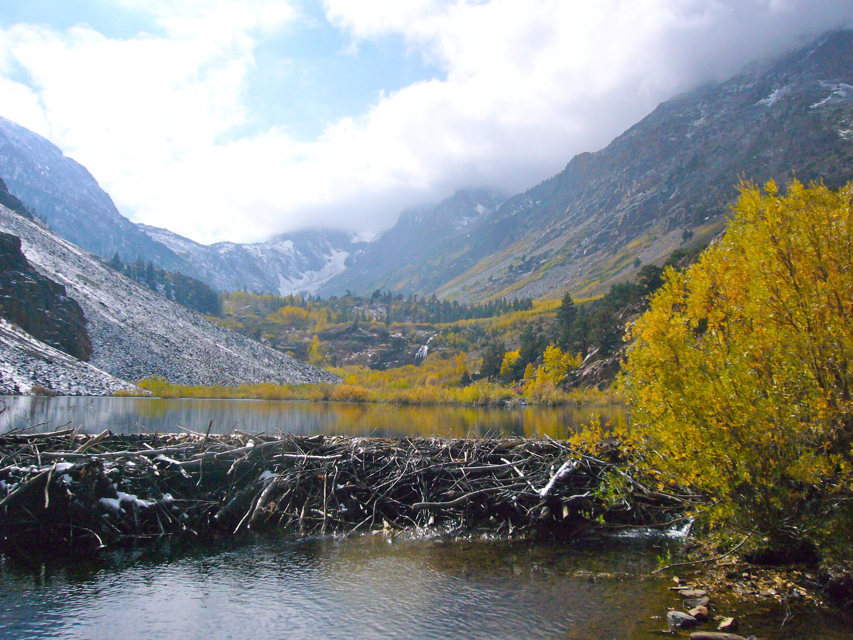 Beaver dam on Mill Creek in Lundy Canyon, Inyo National Forest, Eastern Sierra Nevada, California.